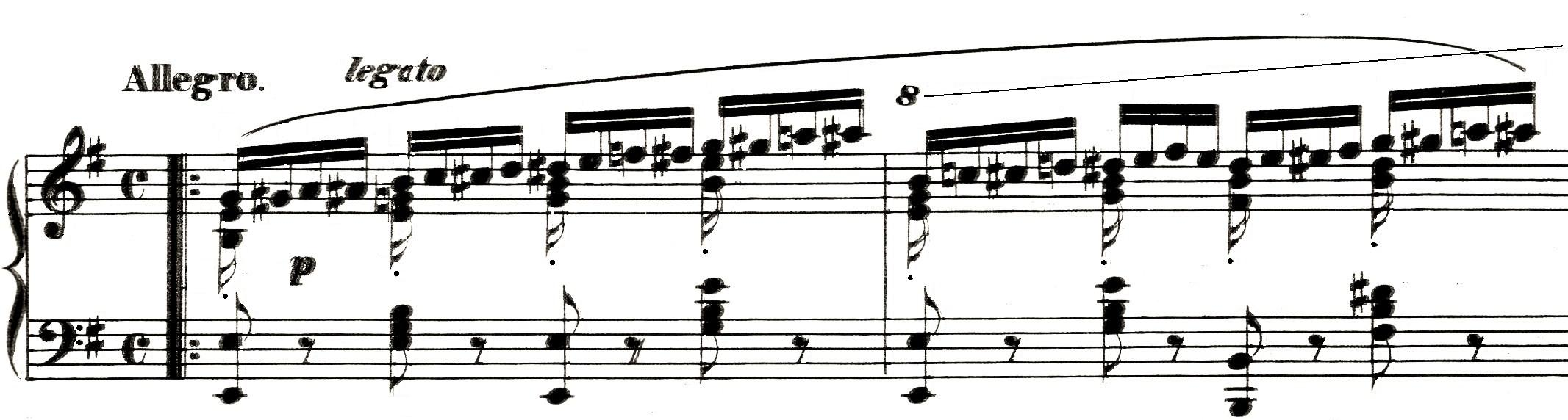 Excerpt from Czerny's Etude Op.365 No.19. Note the similarity to Chopin Etude Op. 10 No.2!